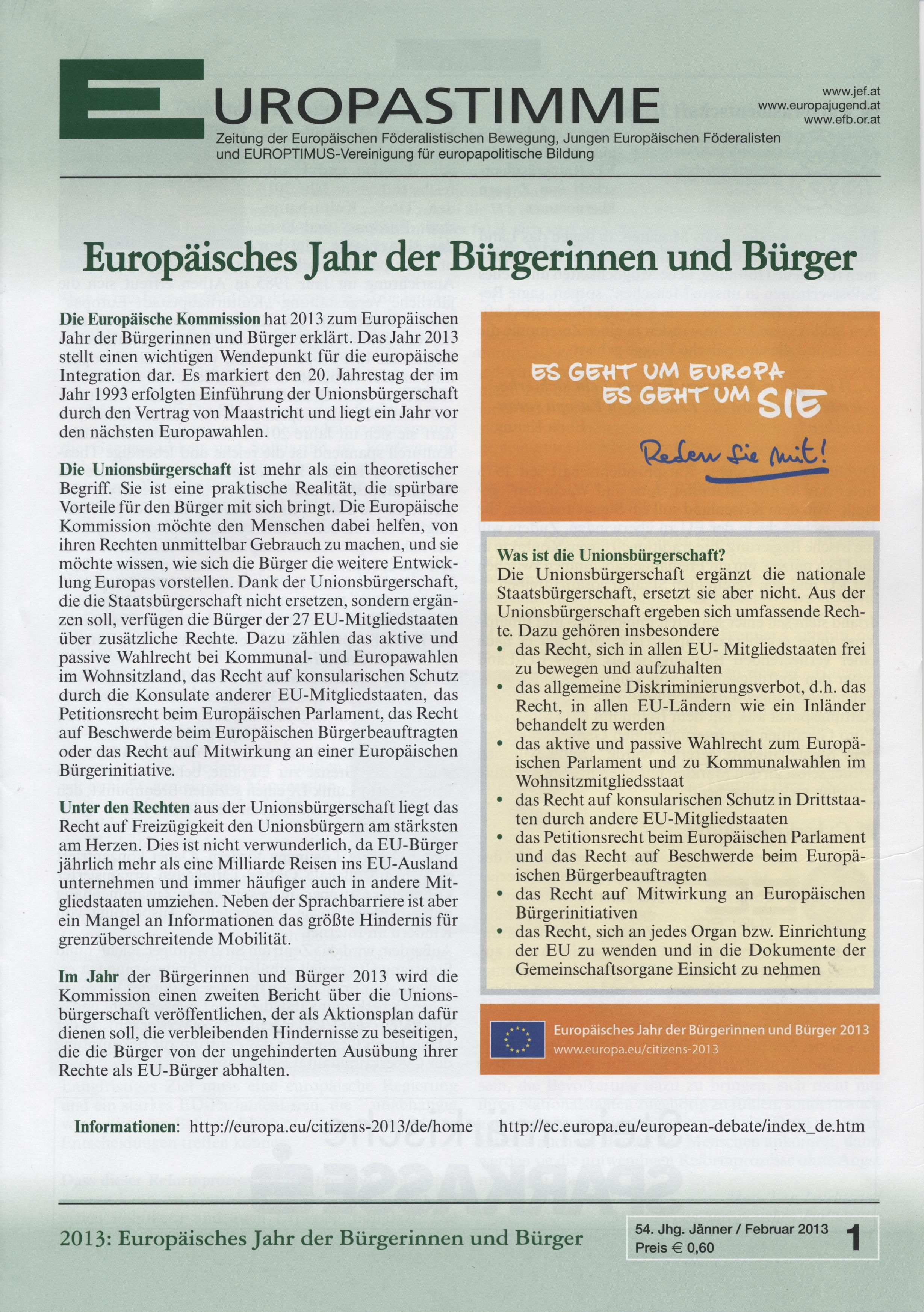 Cover Europastimme 2013/1+2